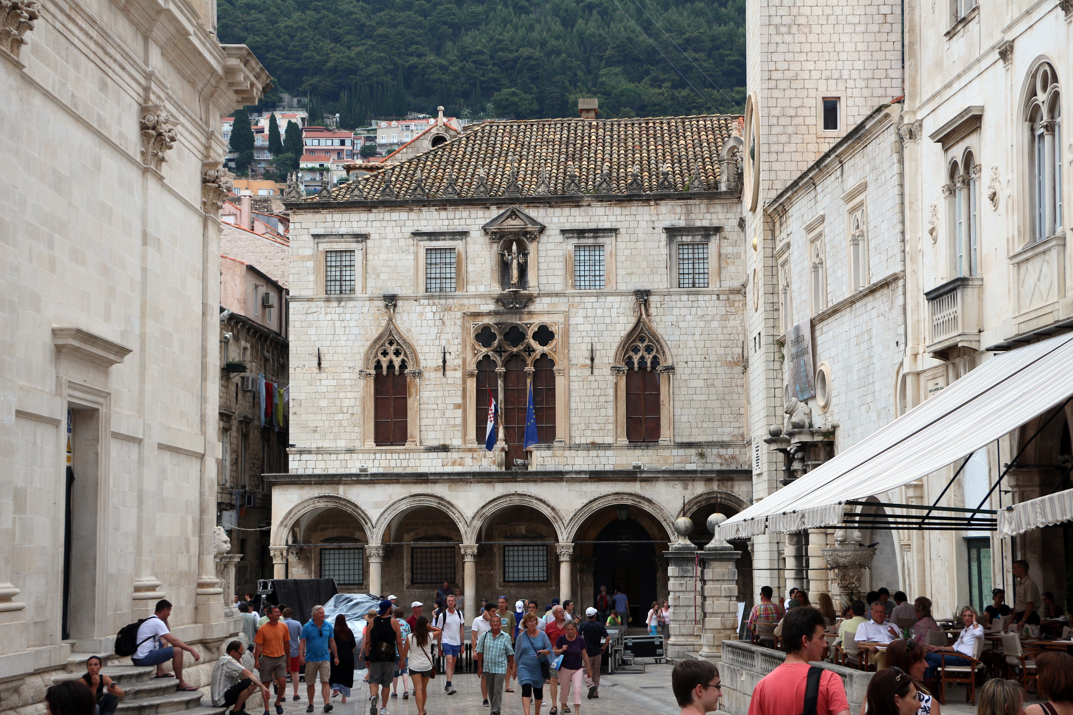 Sponza Palace